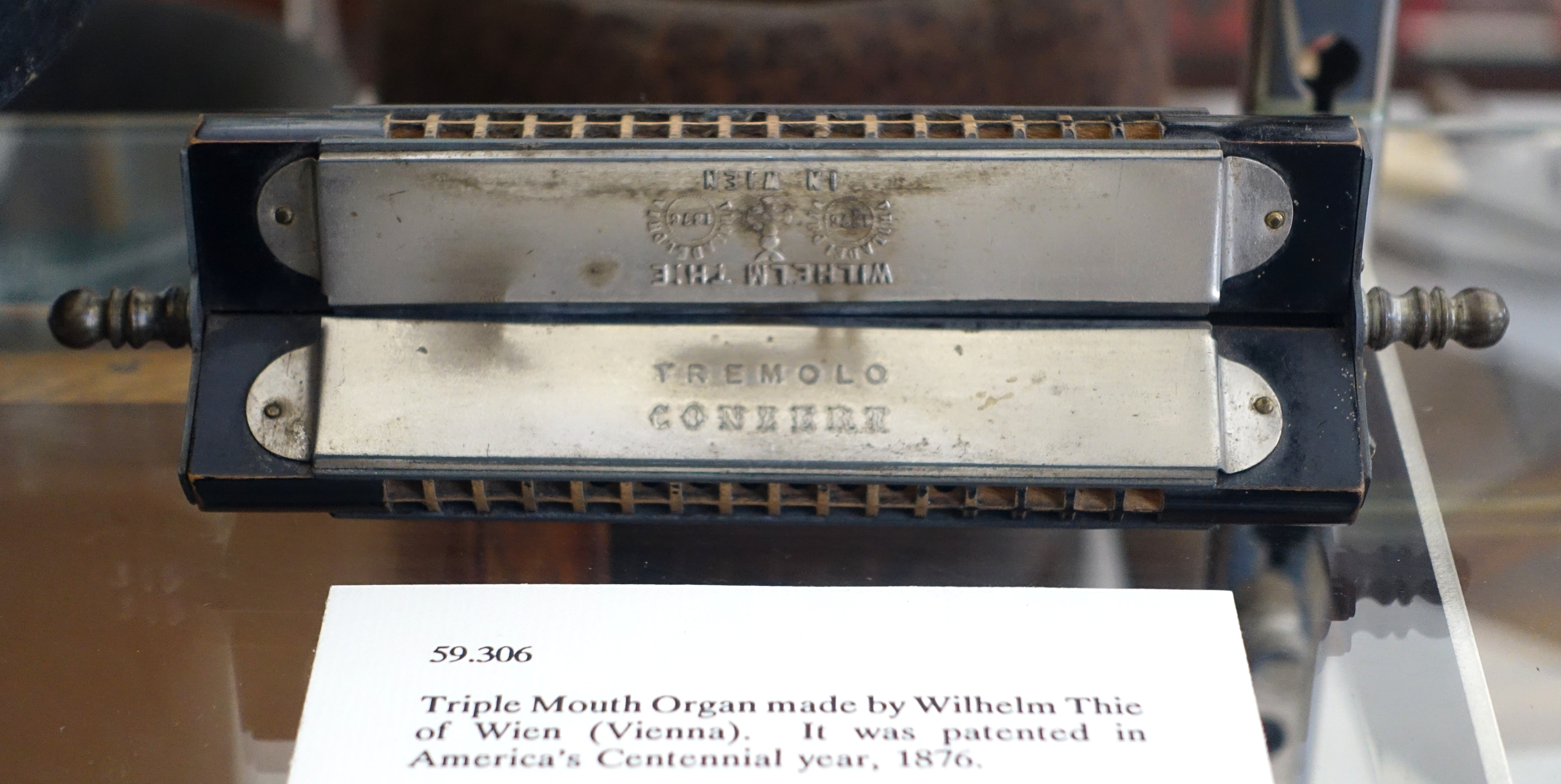 Exhibit in the Bennington Museum - Bennington, Vermont, USA. This work is in the public domain because the artist died more than 70 years ago.